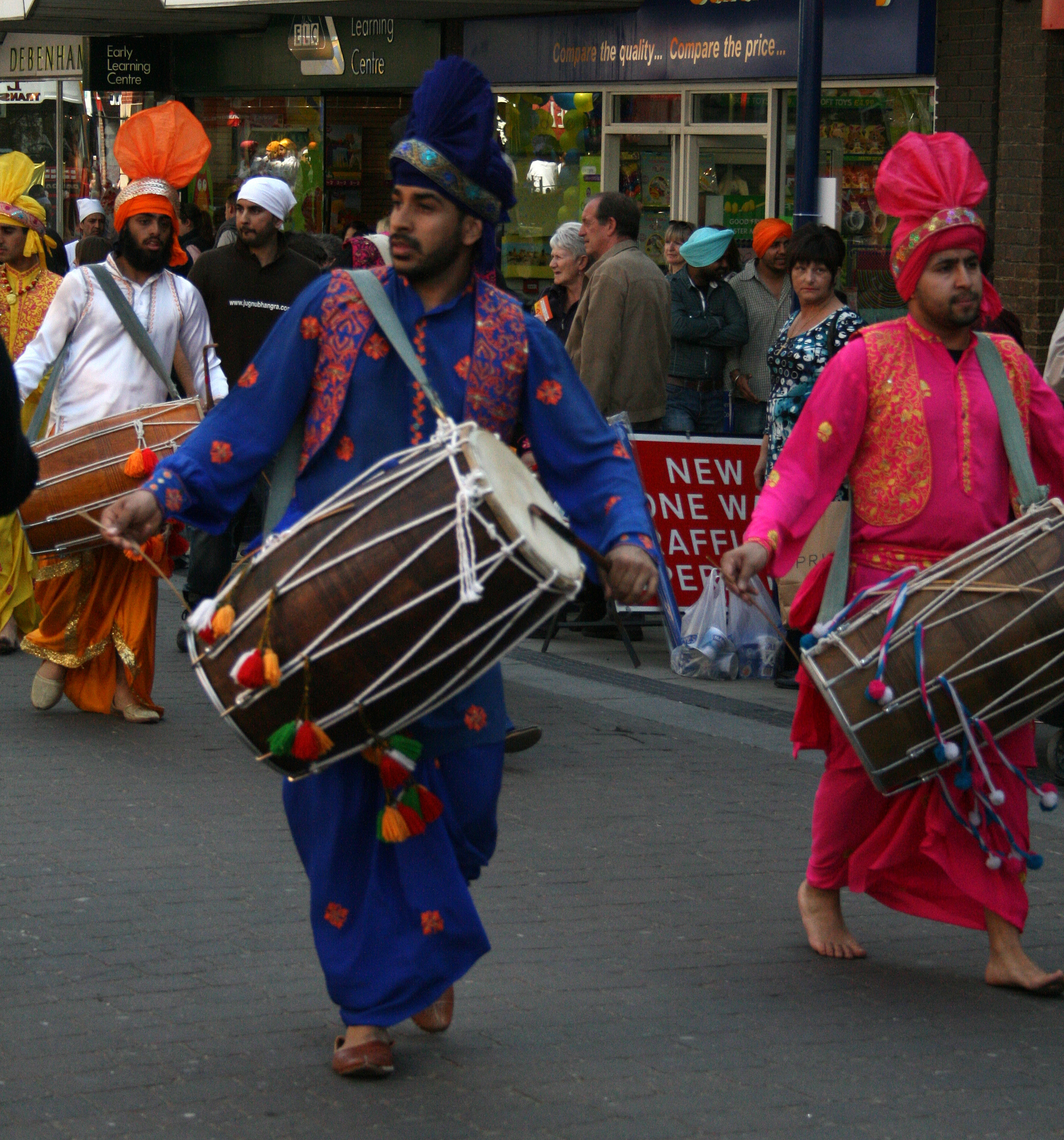 Dhol Bhangra players at Vasakhi 2011 Kent, England